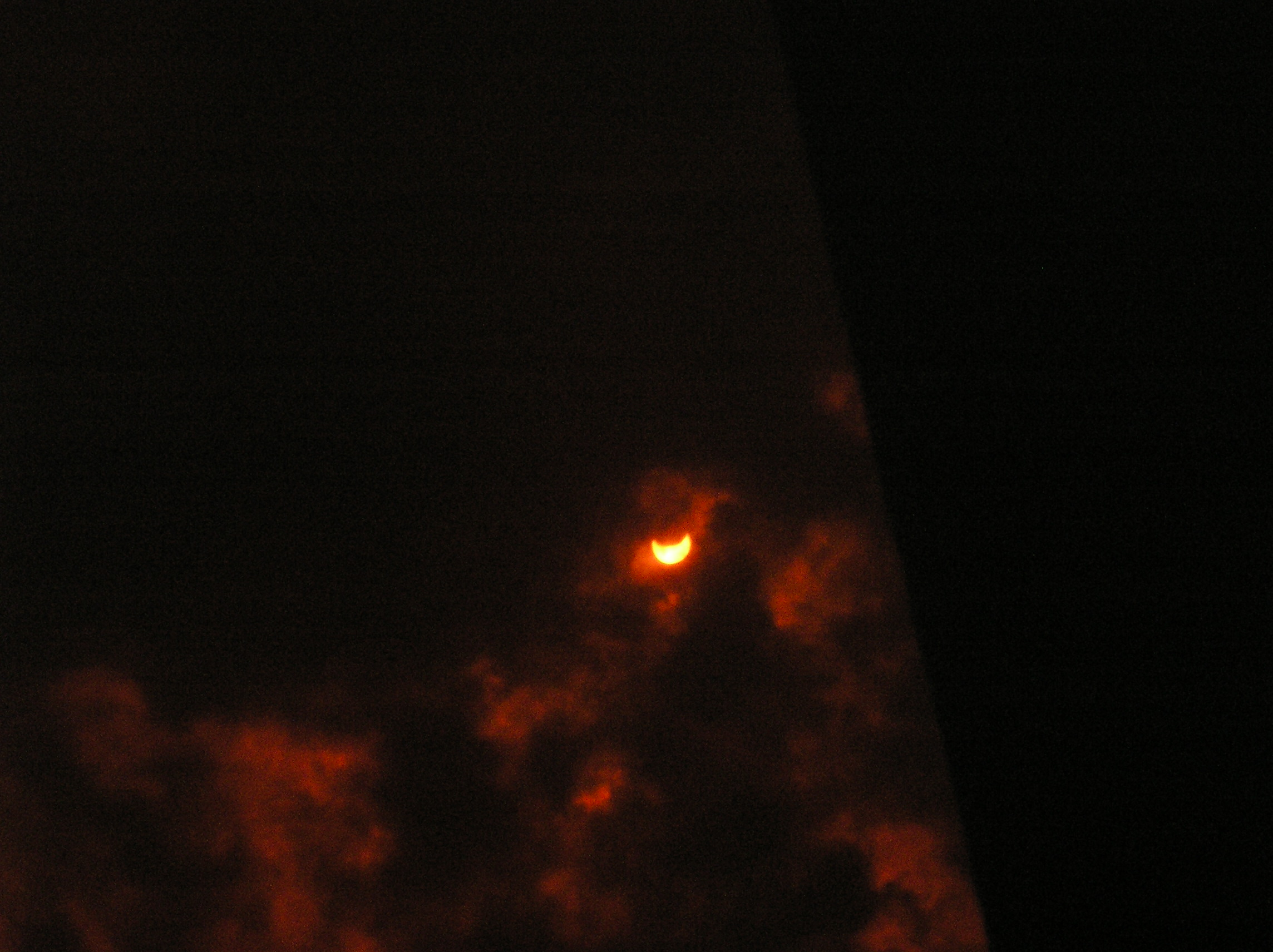 Sun eclipse in Saratov, Russia